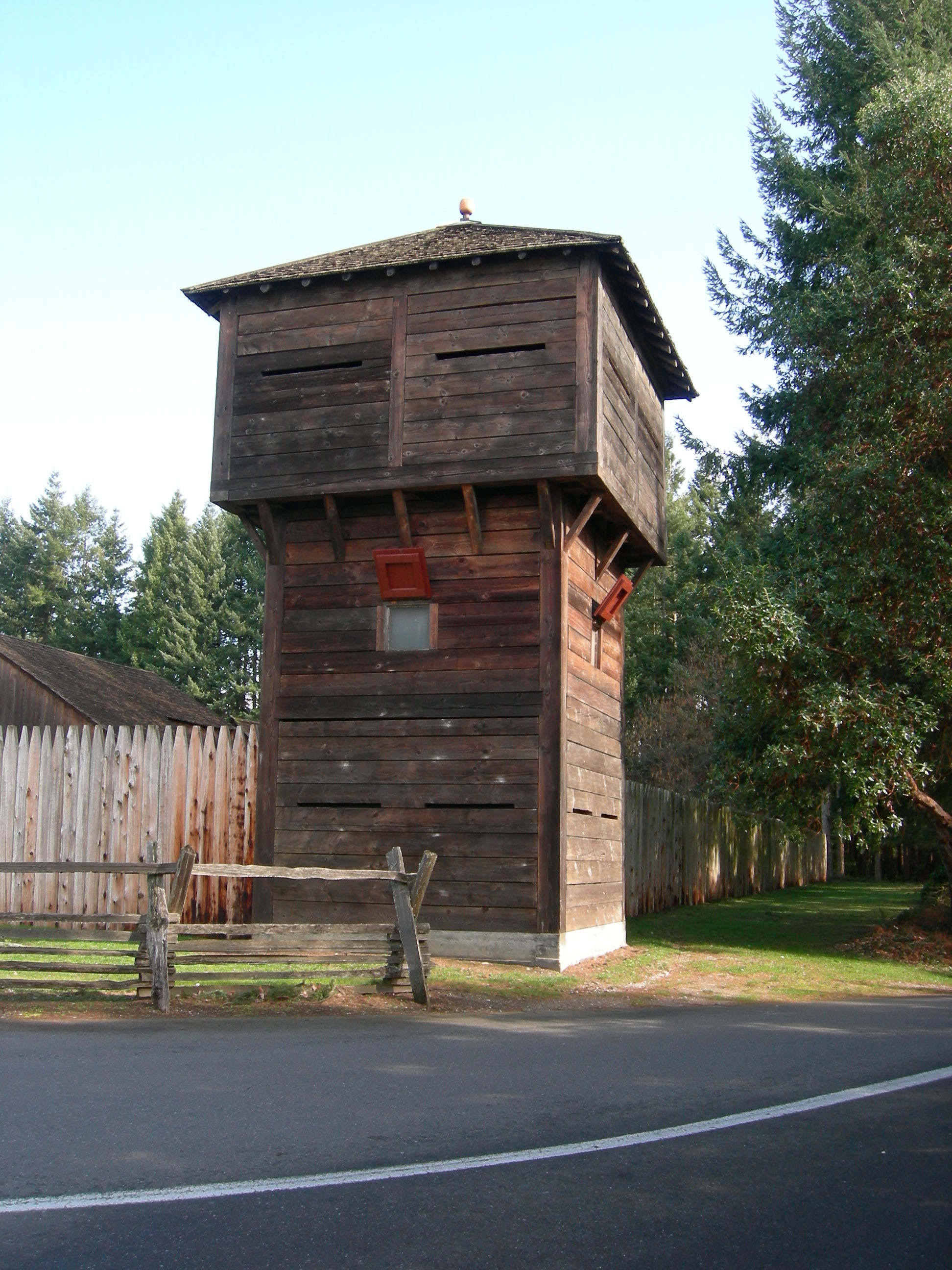 Fort Nisqually blockhouse, Point Defiance Park, Tacoma, Washington. Fort Nisqually is a reconstructed Hudson Bay Company fort.